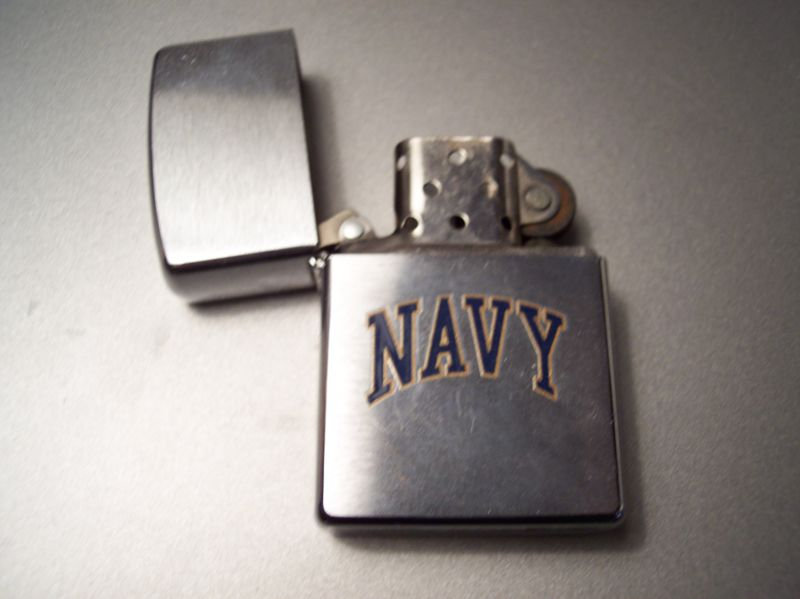 Navy Zippo lighter